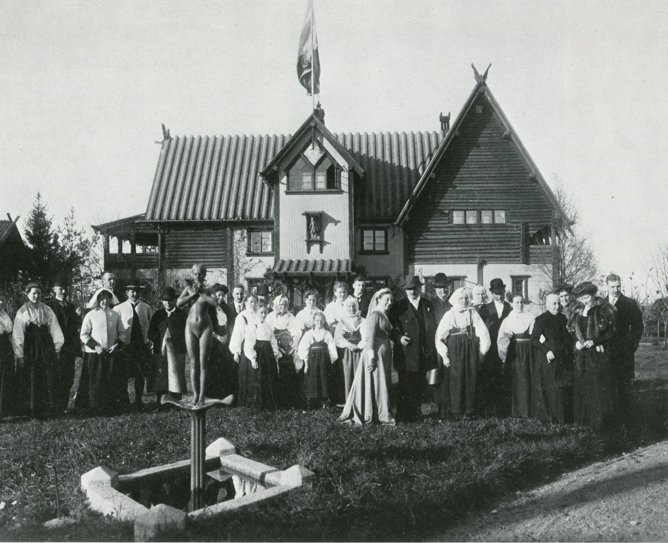 Emma en Anders Zorn in the "Zorngården" (16 Oktober 1910. On the left side of Anders his mother "mod" (Grudd Anna Andersdotter.)